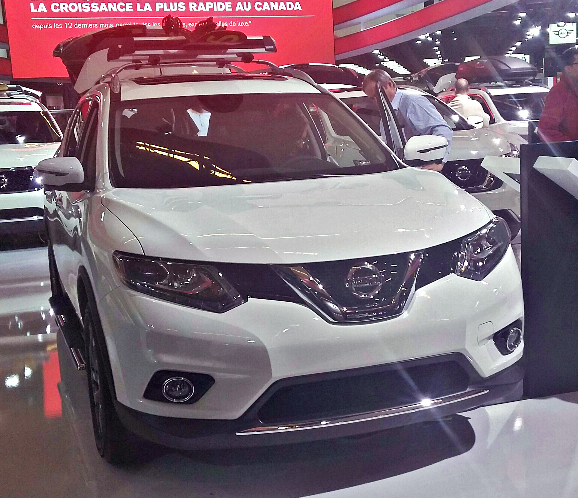 2016 Nissan Rogue photographed in Montreal, Quebec, Canada at the Salon International de l’auto de Montréal 2016.